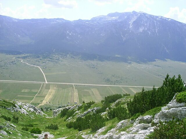 Blidinje Mountains, Bosnia and Herzegovina